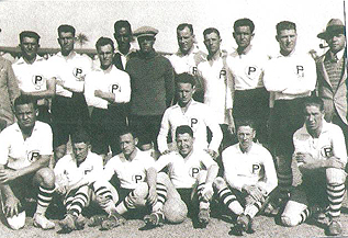 Israel National Football Team during its first game in history (Cairo)